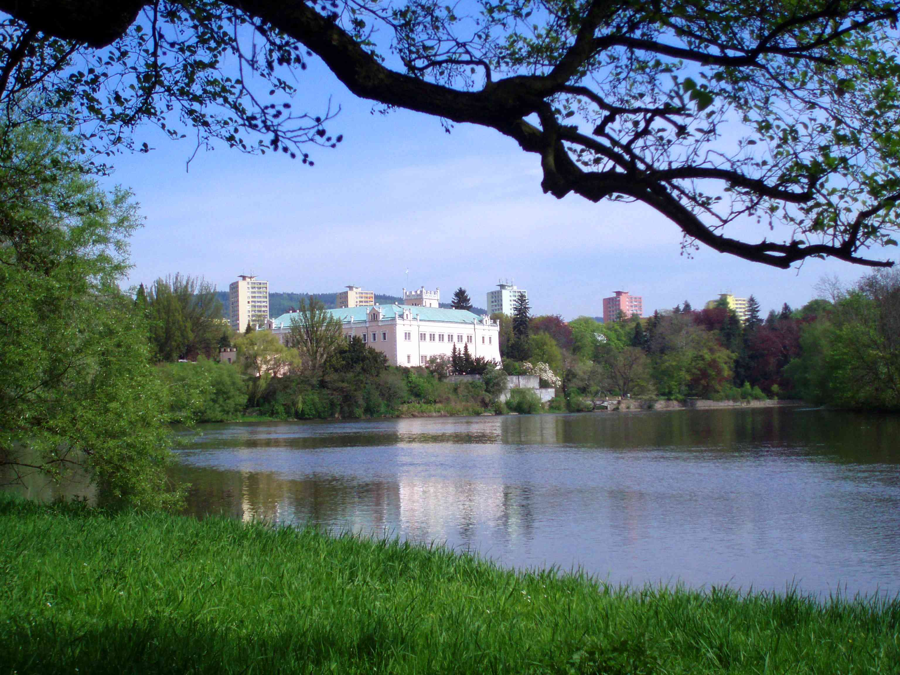 The Klášterec nad Ohří Chateau, in its landscape park on the Ohře River, with the town of Klášterec nad Ohří in backround, Bohemia. Located in the Ústí nad Labem region, the Czech Republic.